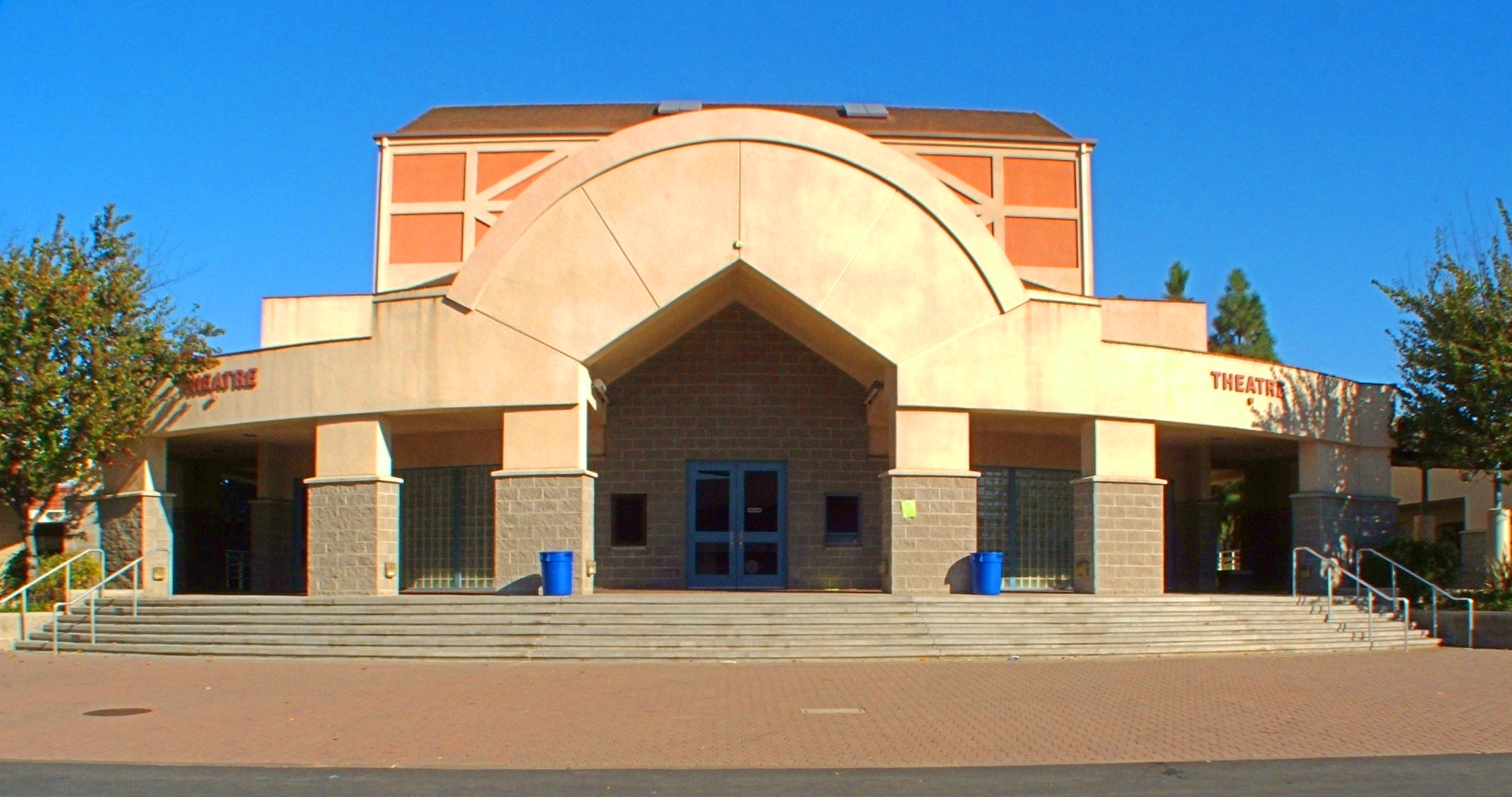 The University High School Theatre. Irvine, California, USA. The theater was built in 1994 as part of a campus expansion project [1].